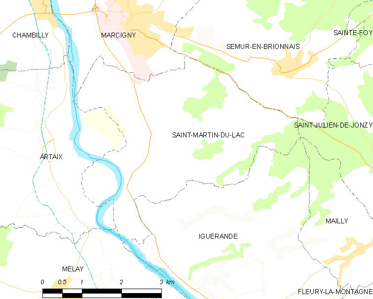 Map of French municipality